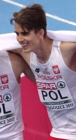 2017 European Athletics U23 Championships, 4x400m relay men final